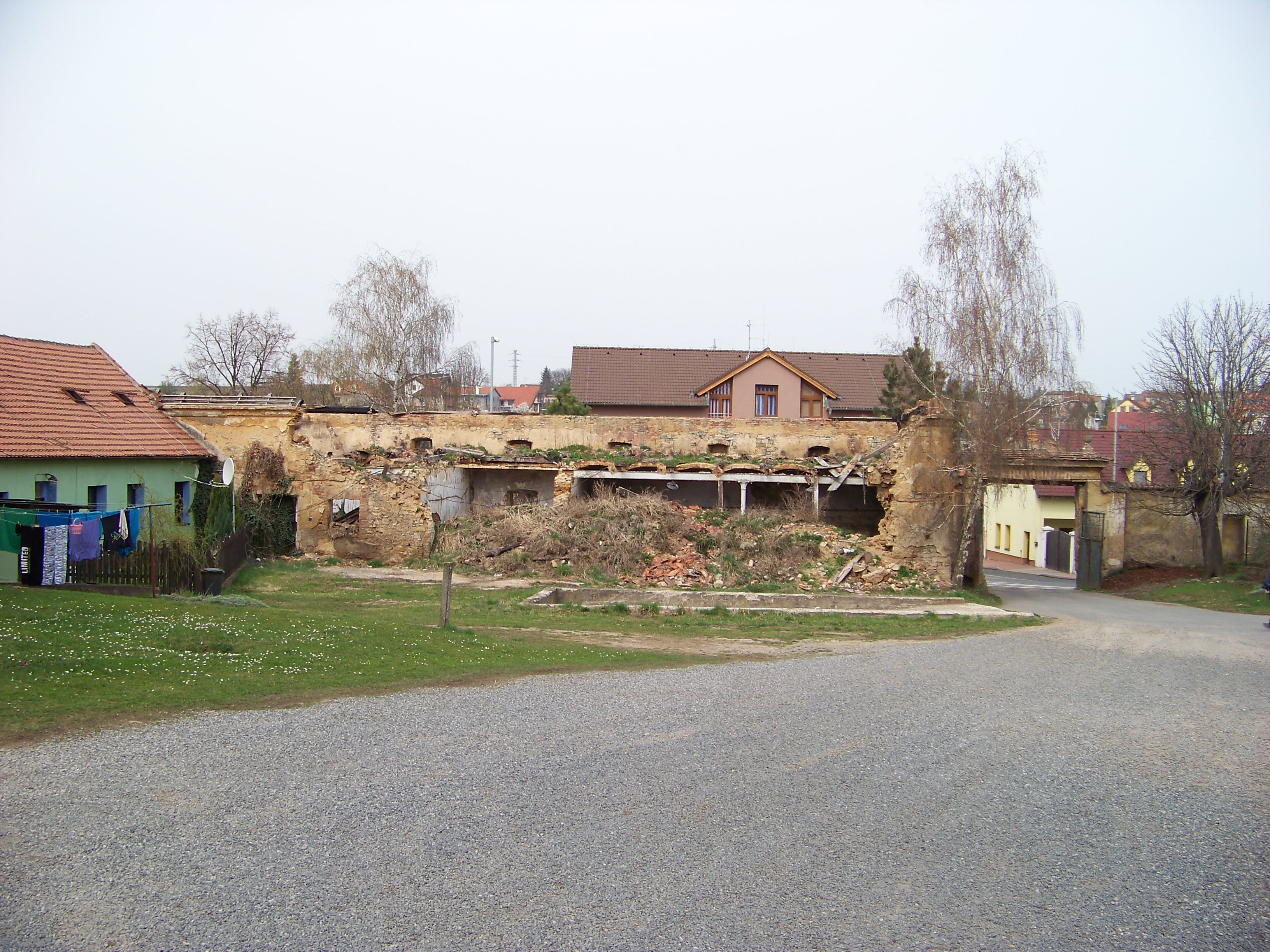 Prague-Lochkov, Czech Republic. Za ovčínem 1, a castle. - Google Maps - Google Earth